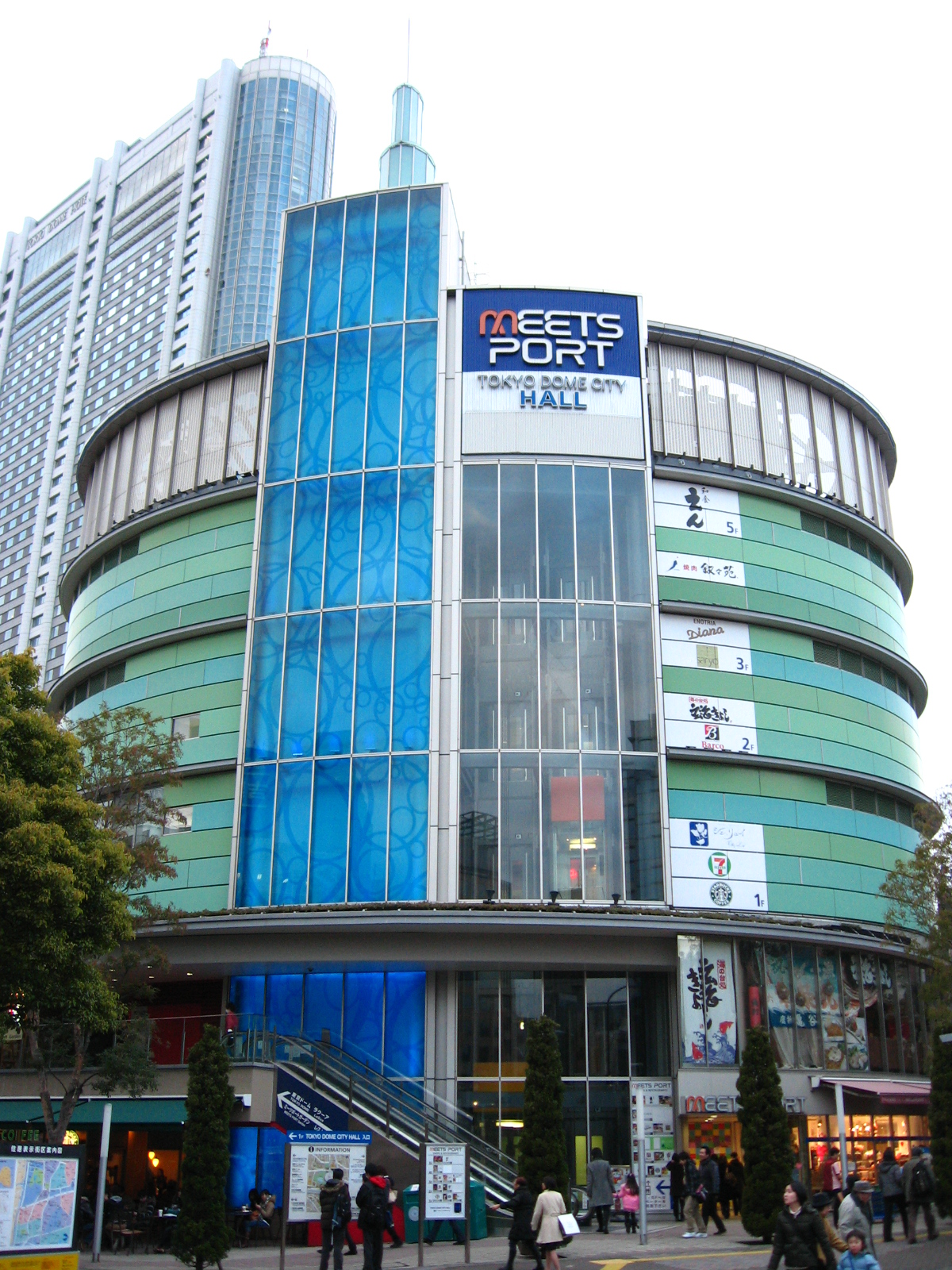 MEETS PORT by Tokyo Dome City from Suidobashi, Bunkyo-ku Tokyo.